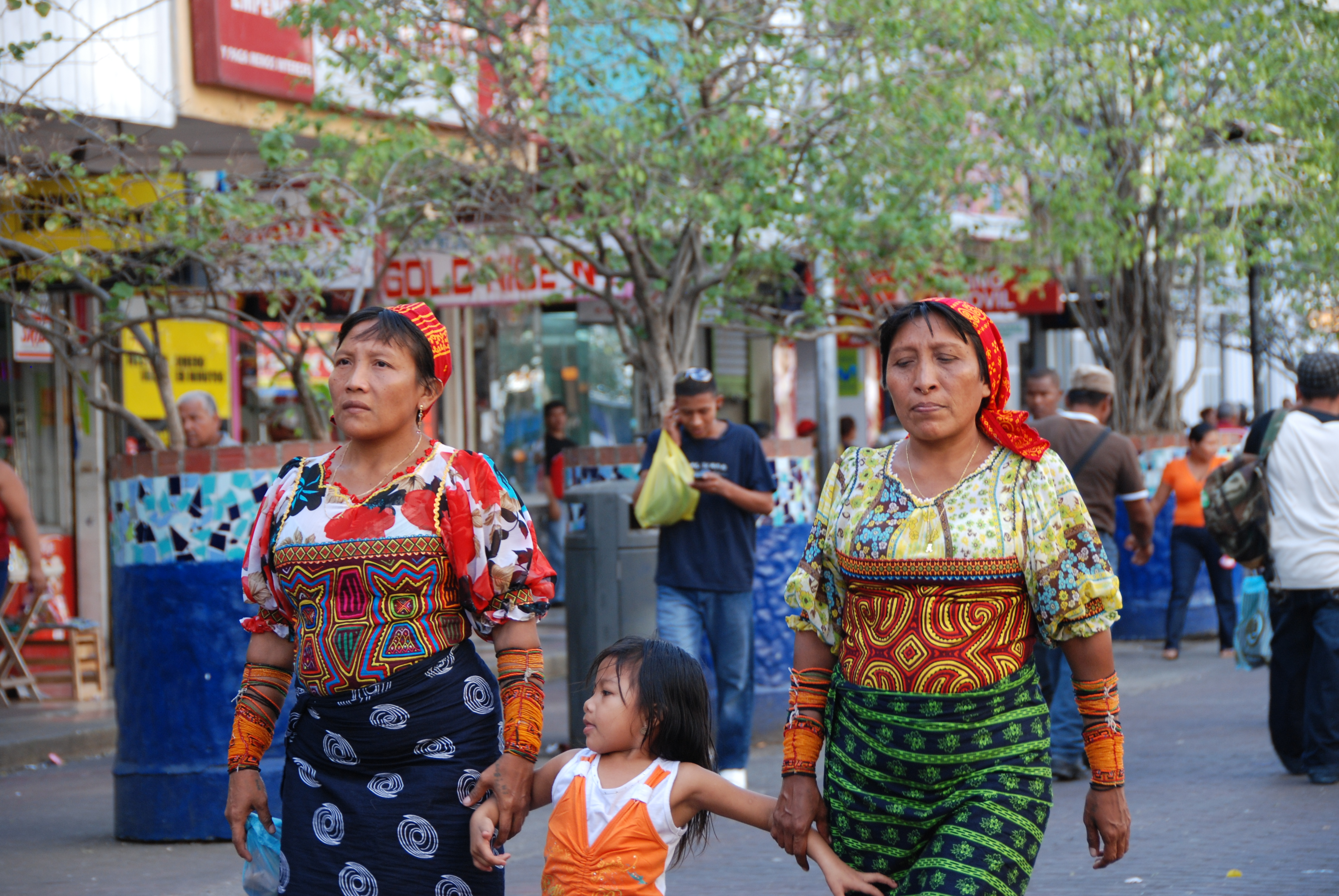 Woman with child